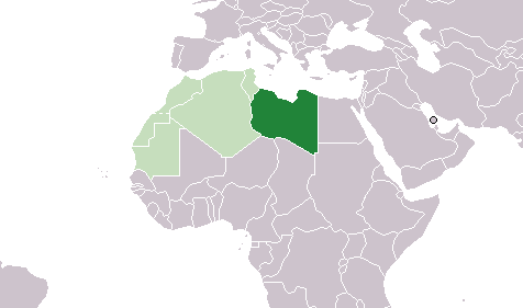 Libya within the Union of Arab Maghreb (UAM)